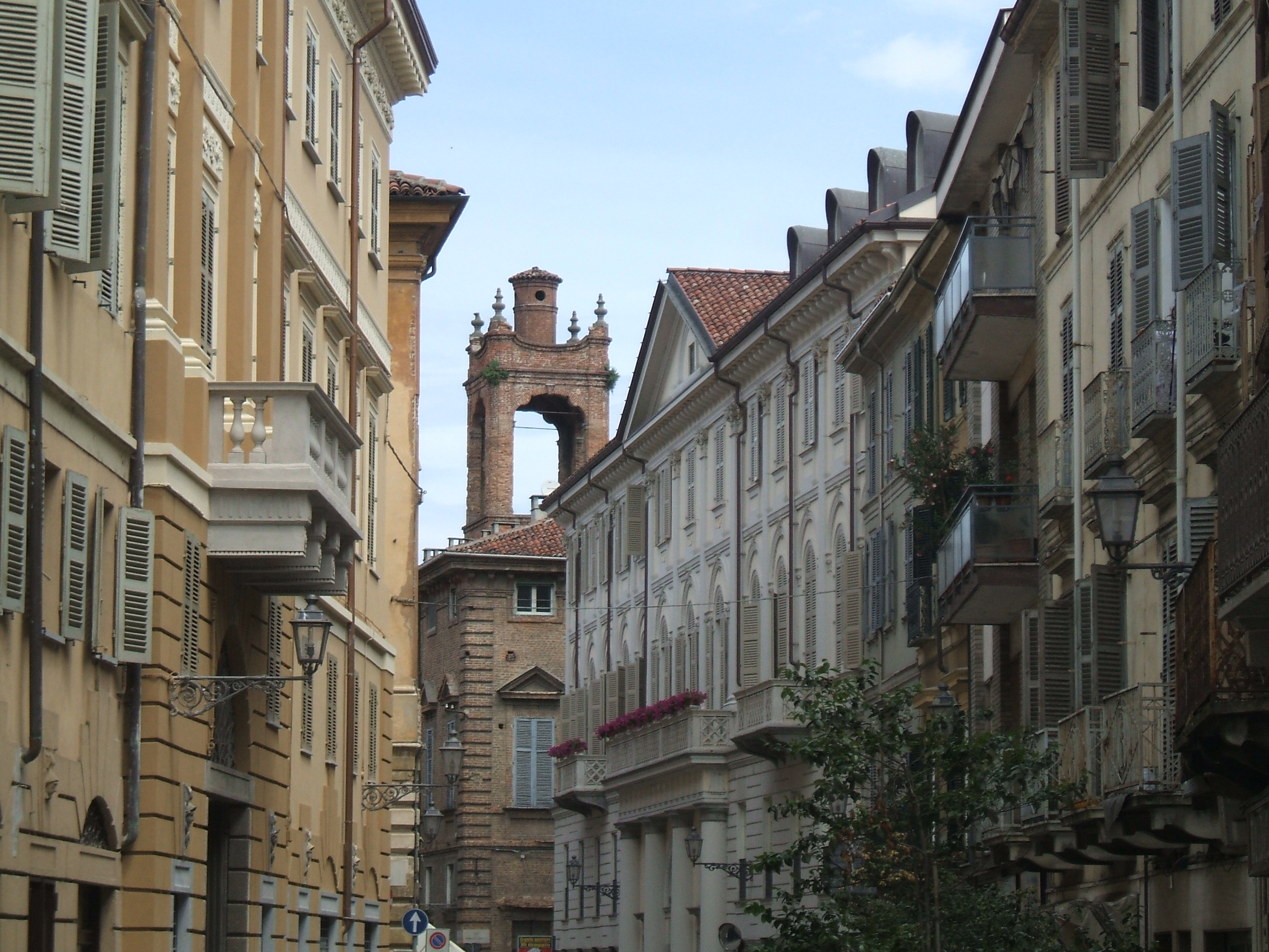 Via Lanza, Casale Monferrato. The building on the right with the triangular pediment is the Palazzo dell’Opera Pia Misericordia. The open tower belongs to Palazzo Morelli di Popolo.